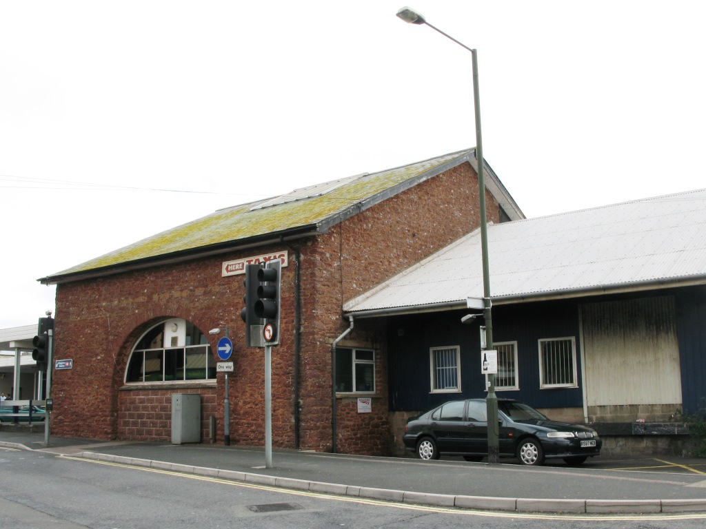 Paignton railway station, Devon, England. These buildings were originally built to store goods for transit by the trains, but the red stone-built one (constructed in 1859) now houses the passenger ticket office.